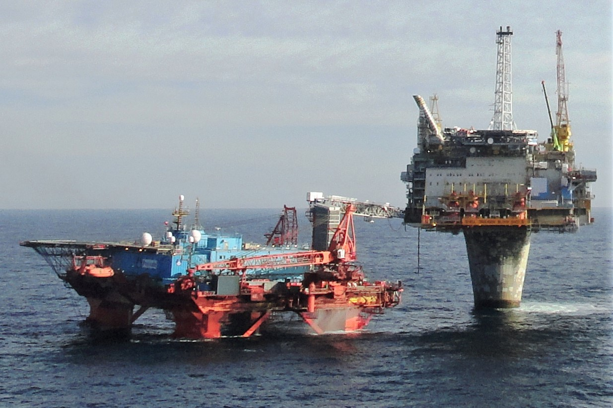 Draugen platform with Regalia alongside